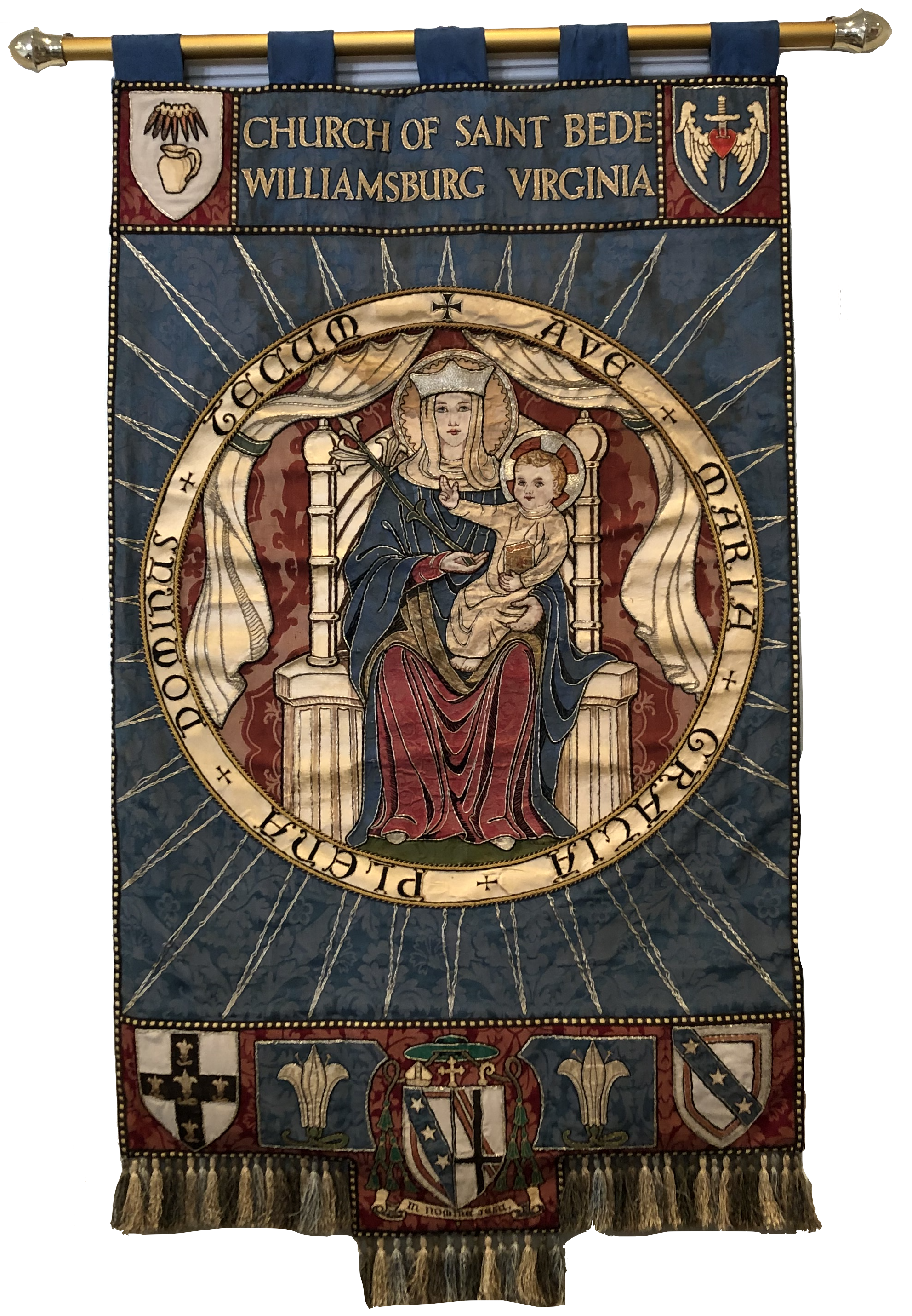 Banner for Saint Bede Catholic Church in Williamsburg, Virginia. Banner depicts Our Lady of Walsingham and coat of arms for the Diocese of Richmond. Formerly displayed in what is now the National Shrine of Our Lady of Walsingham, adjacent to the College of William and Mary, the banner is now in the narthex of the new Saint Bede Church off of Ironbound Road.